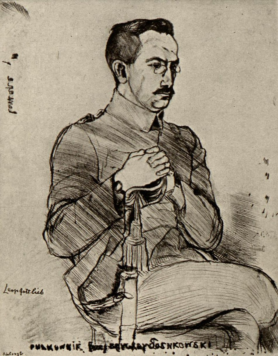 Colonel Kazimierz Sosnkowski by Leopold Gottlieb (1879-1934)